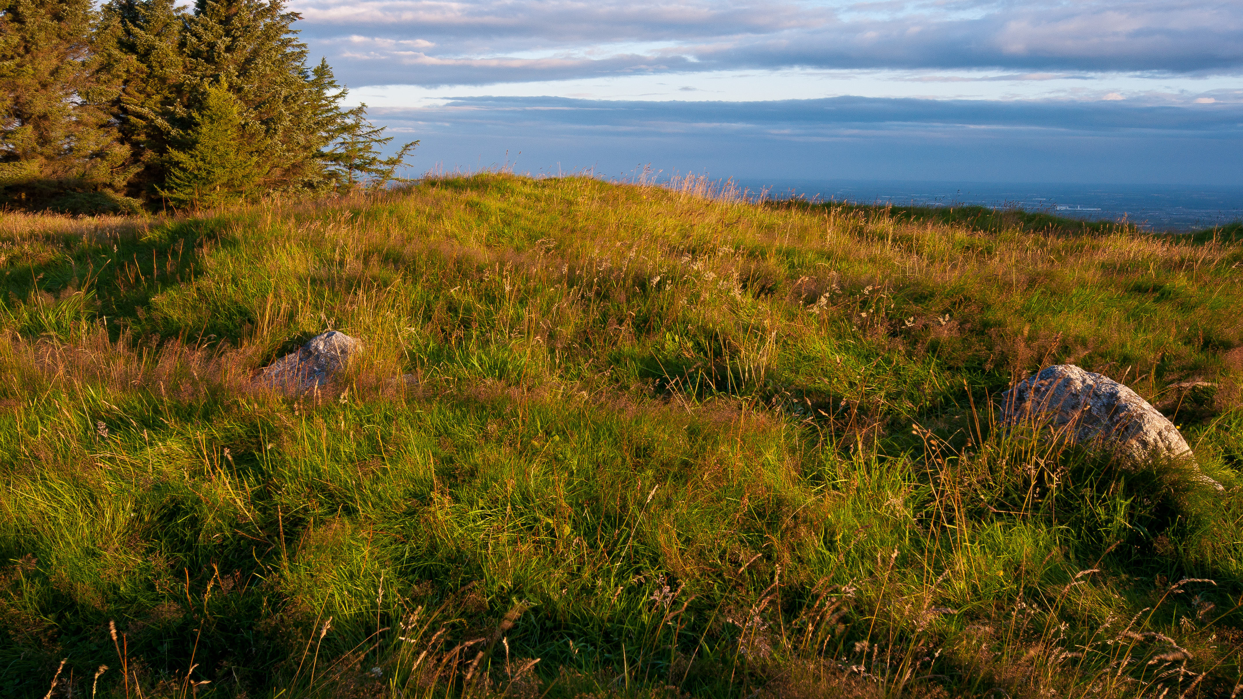 The remains of the prehistoric passage tomb on the summit of Mountpelier Hill, Dublin, Ireland.